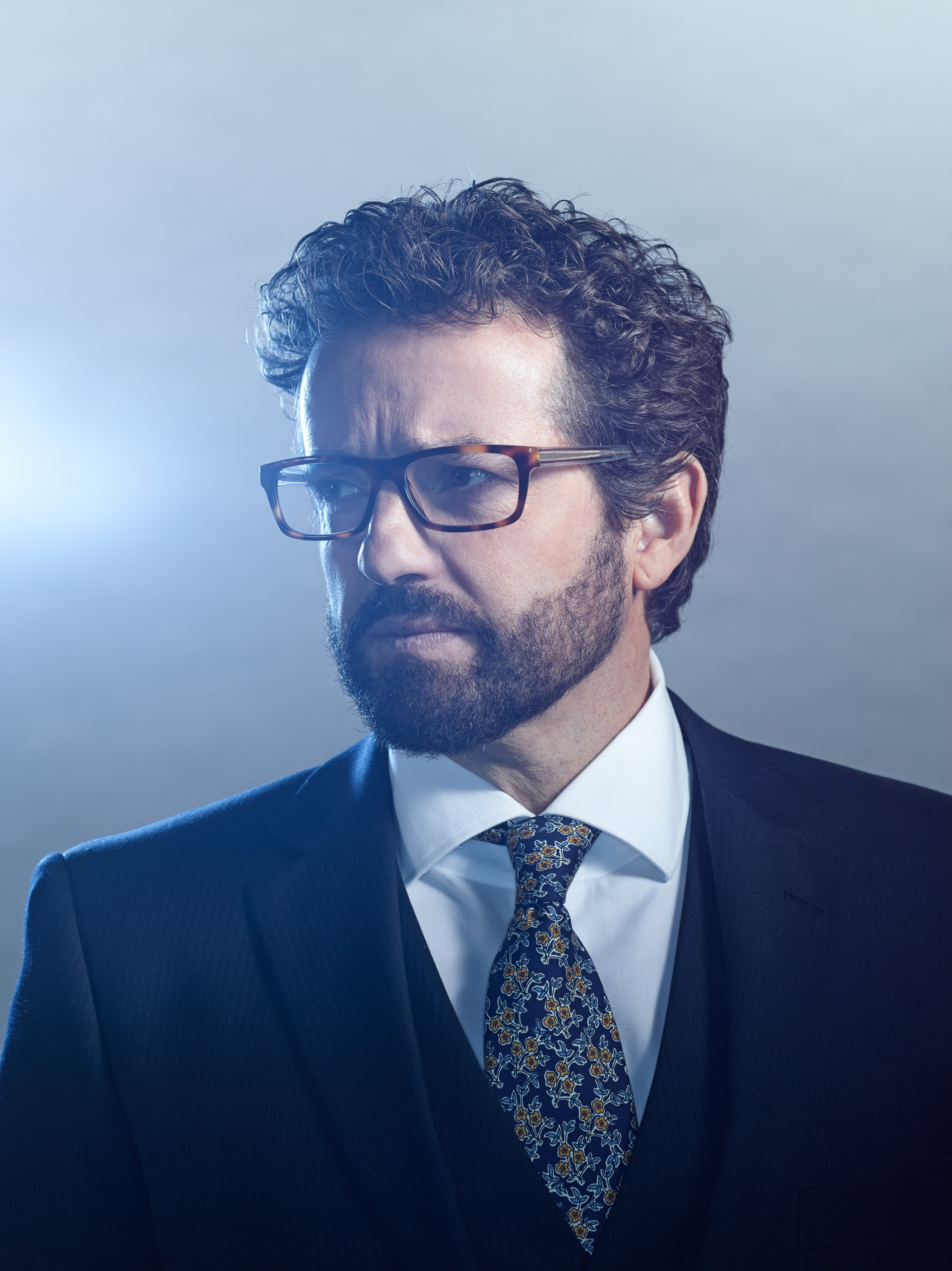 Publicity Still of Louis Ferreira as Detective Oscar Vega in the TV Series "Motive"